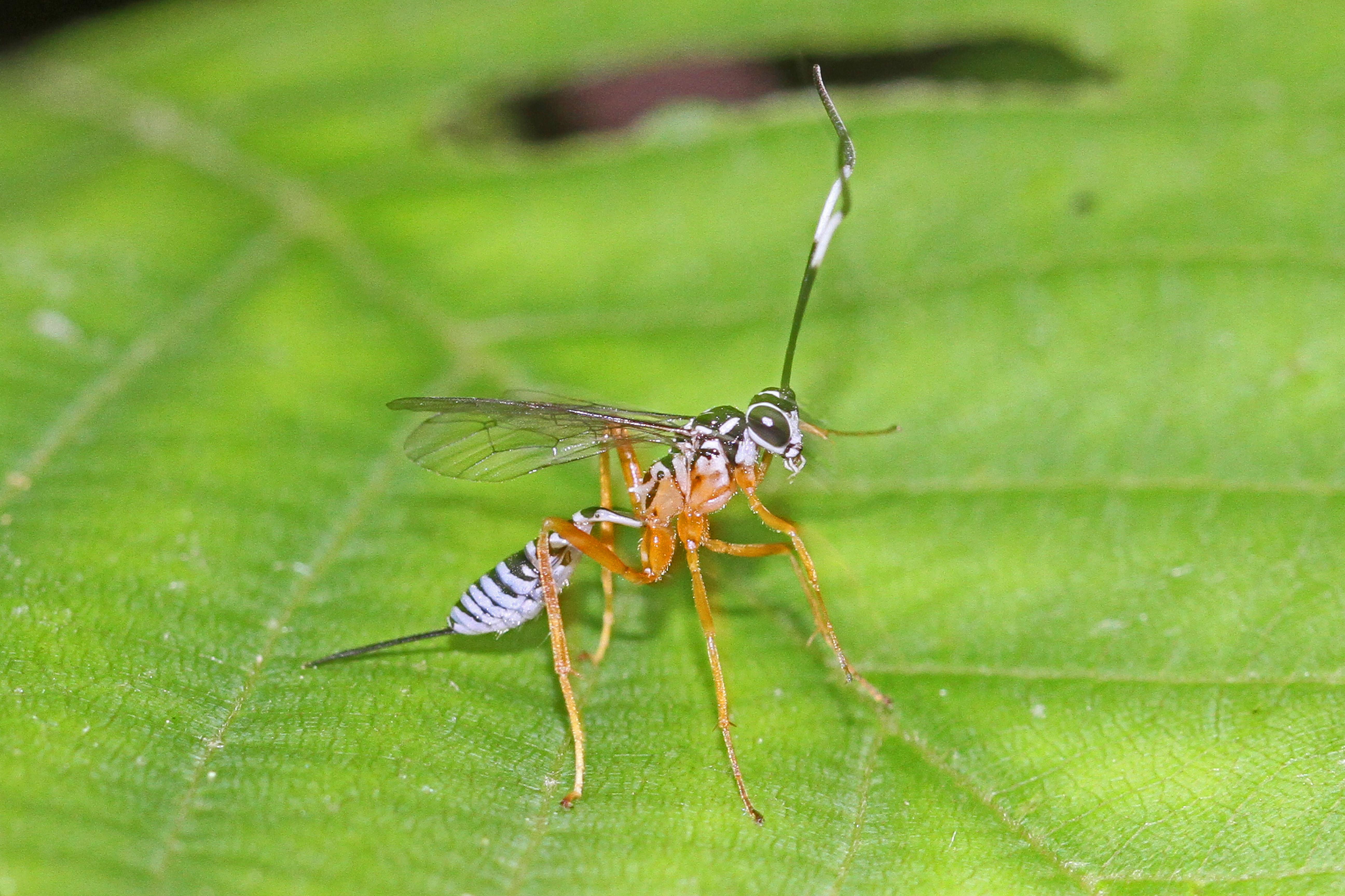 Polycyrtus neglectus - Julie Metz Wetlands, Woodbridge, Virginia